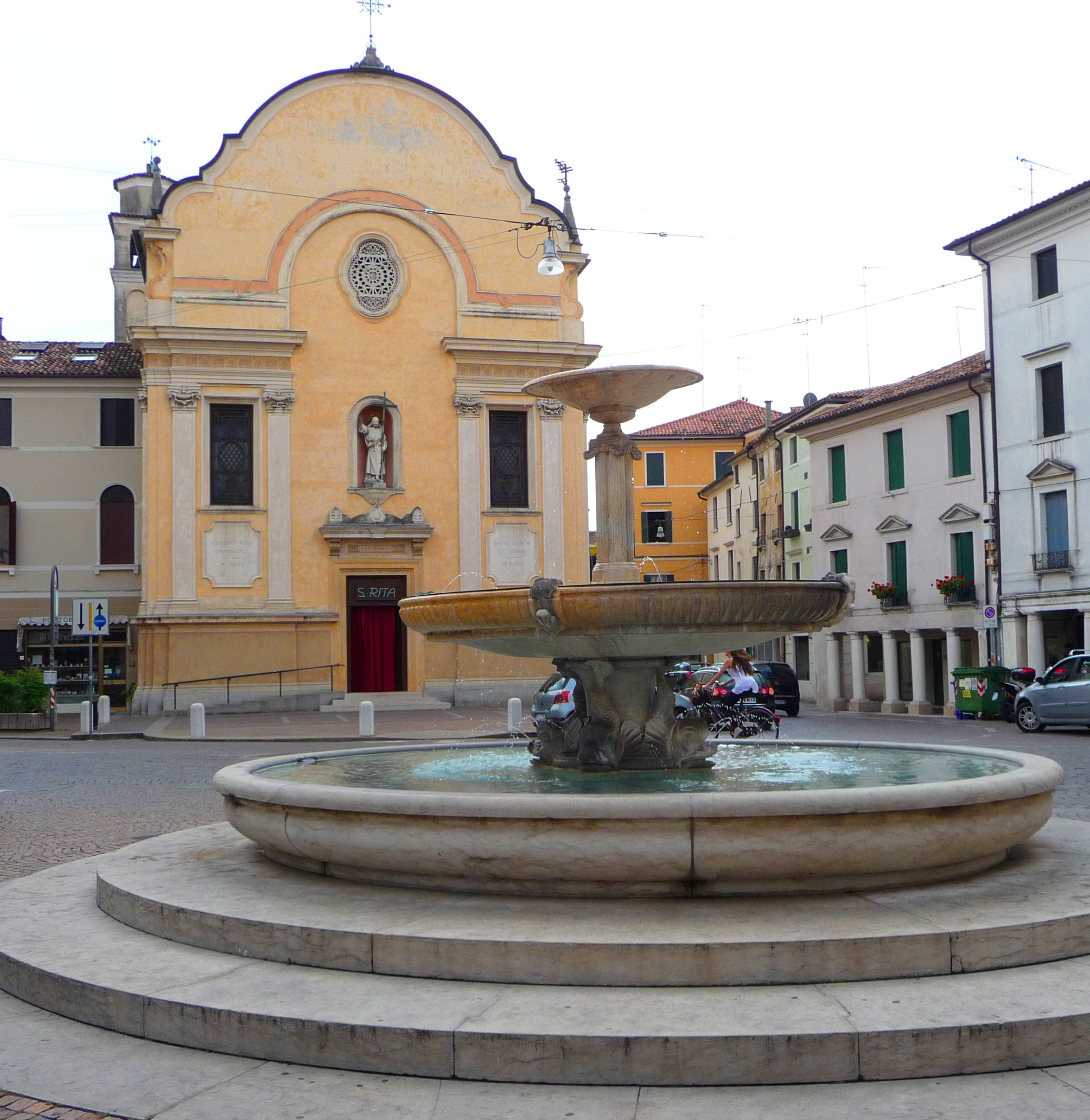 Chiesa di San Leonardo and Fountain in Piazza San Leonardo, Treviso (IT)